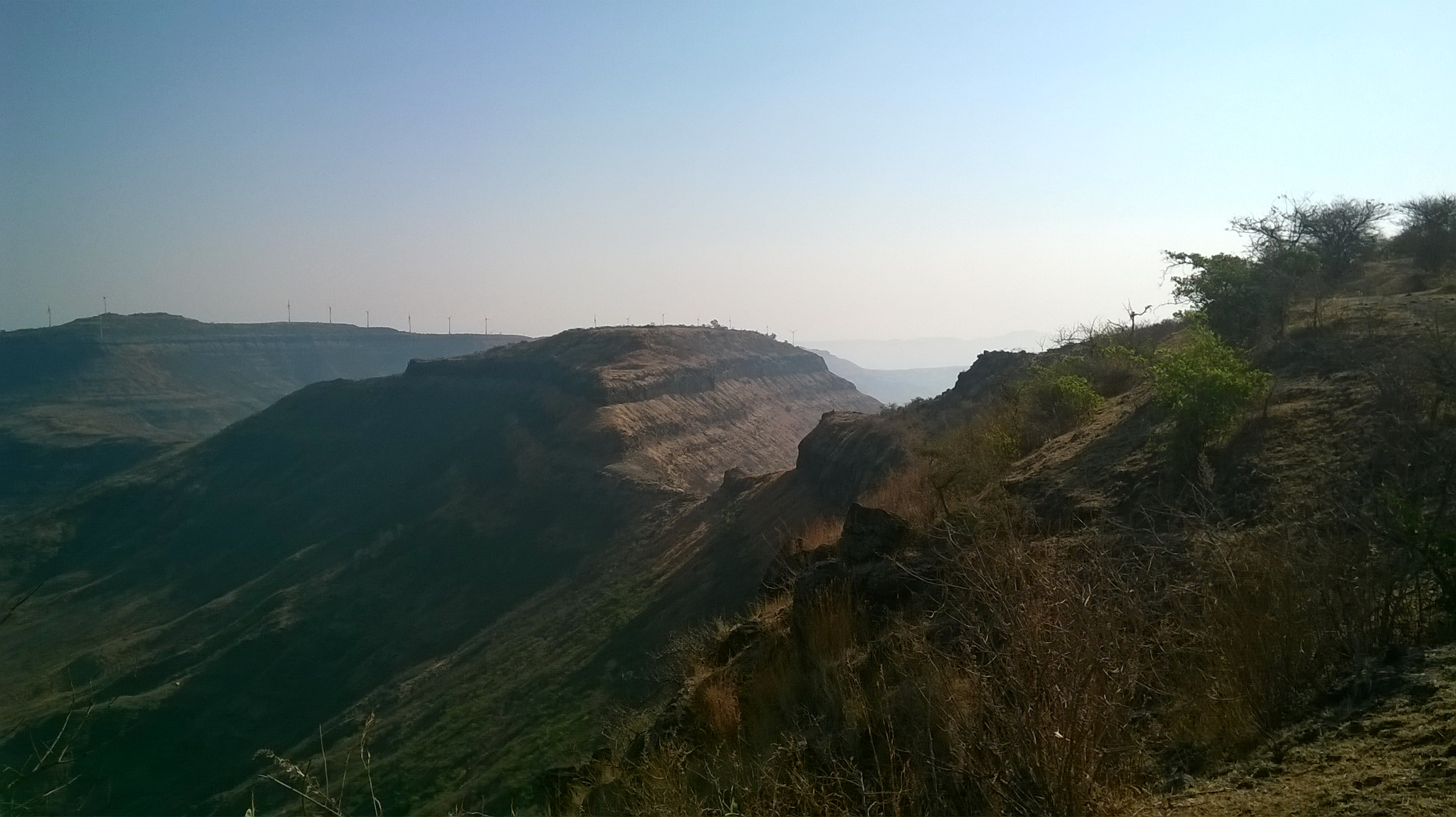 Author : CC Marathe